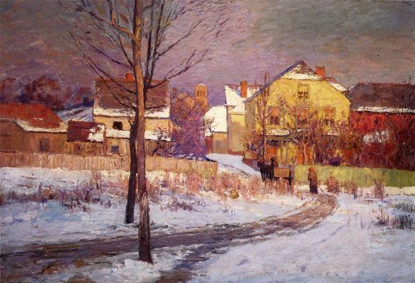 Tinker Place